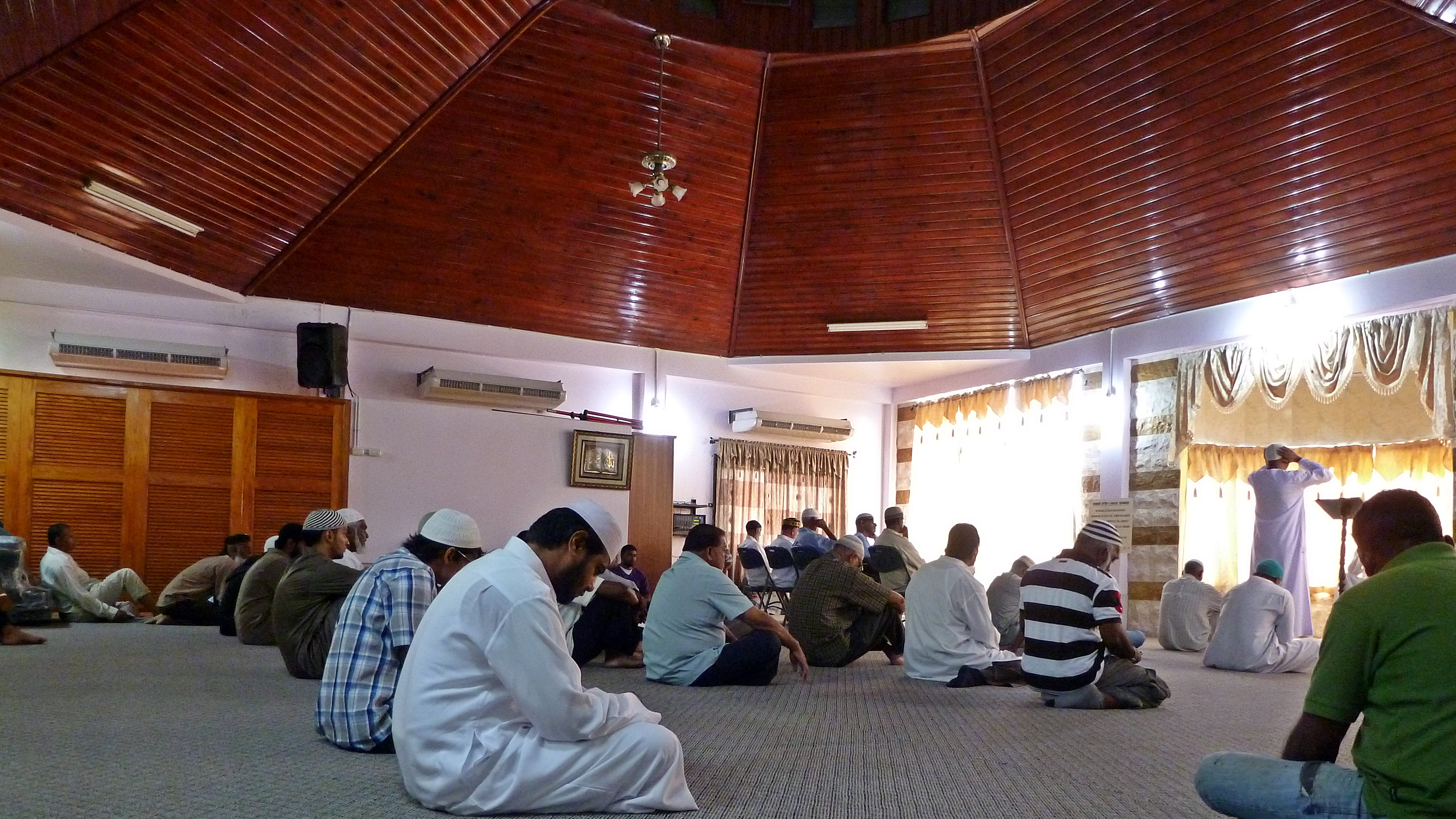 Muslims comprise about 6% of the population of Trinidad and Tobago, West Indies. Islam was brought to the Caribbean by indentured workers from British India in the period 1838 -1917. There are over 100 mainly small mosques (masjids) scattered throughout the country. Islam is practiced freely alongside Christianity and Hinduism.